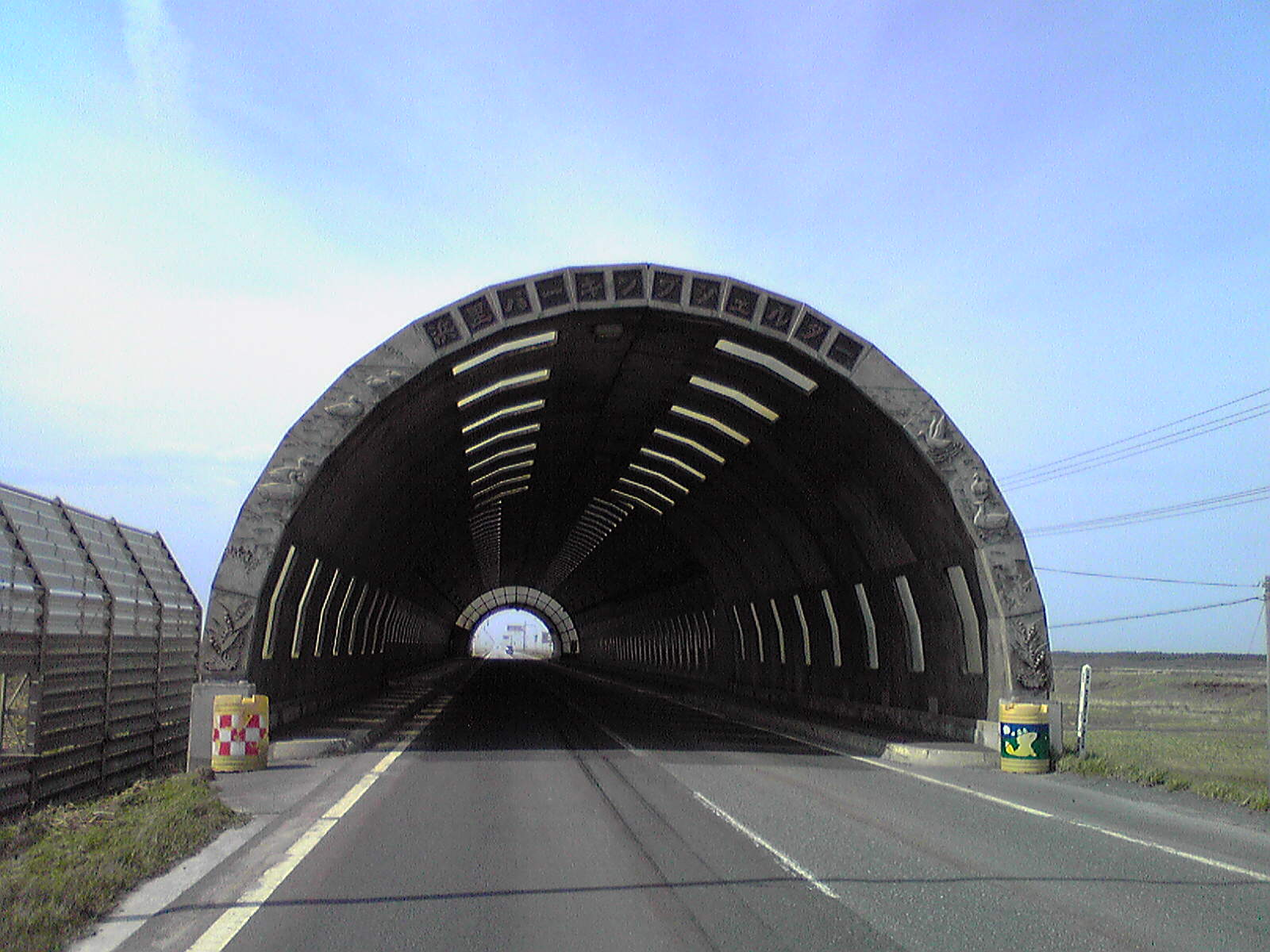 Hamasato Parking Shelter on the Hokkaido Prefectural Road Route 106 in Teshio Town